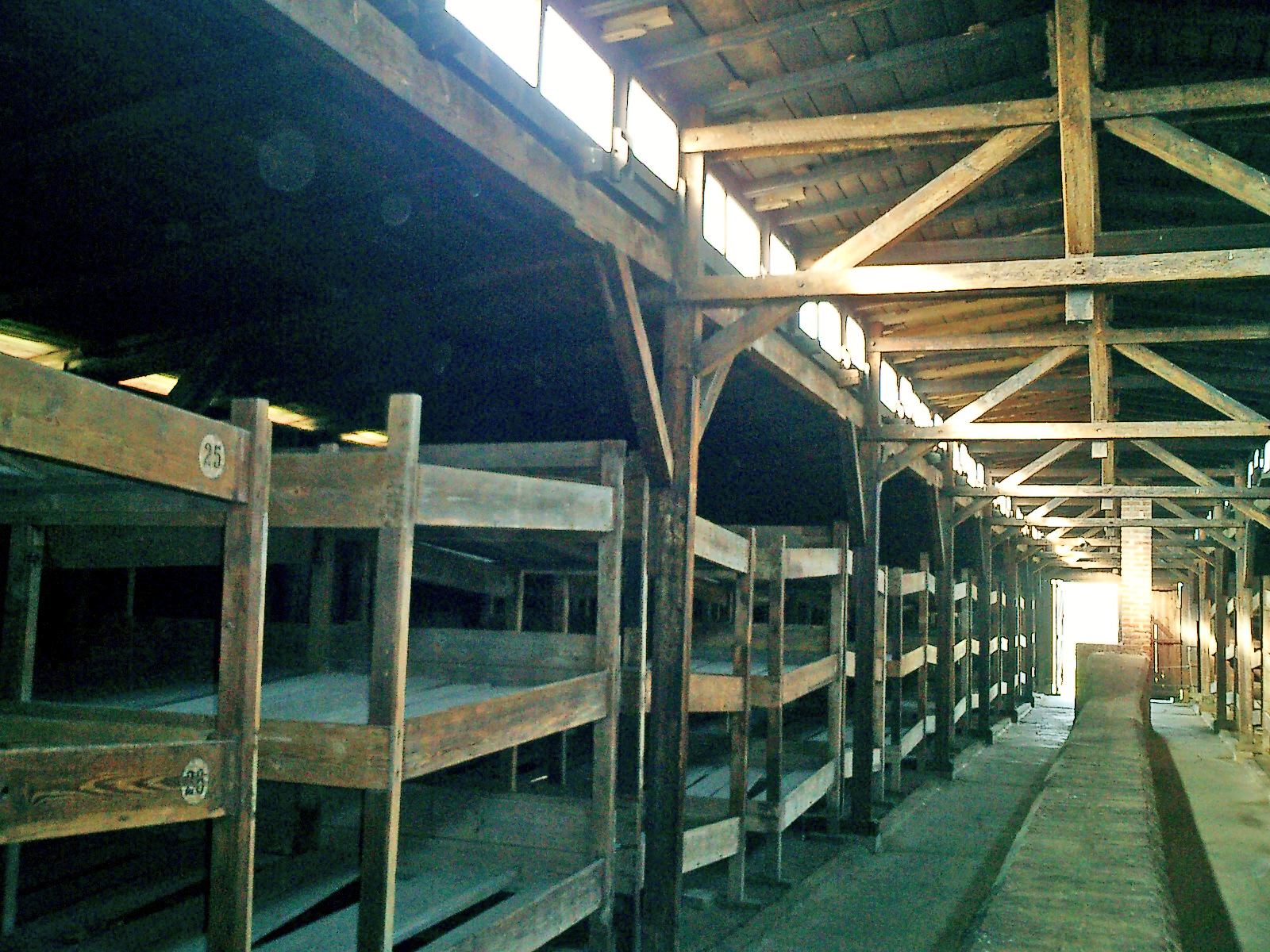 Interior of a reconstructed barracks at Auschwitz II-Birkenau